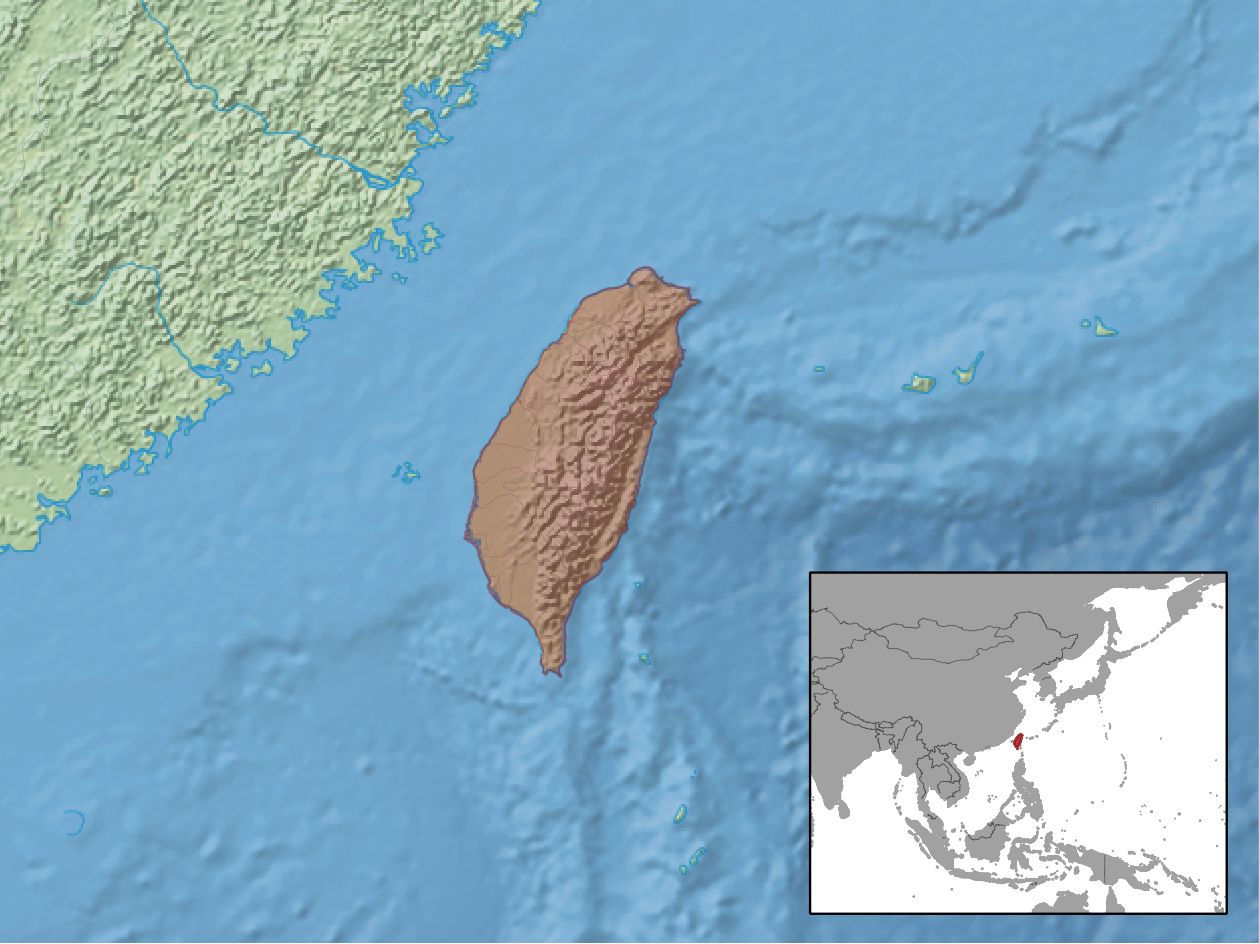 geographic distribution of Arielulus torquatus